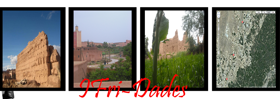 Ifri pic